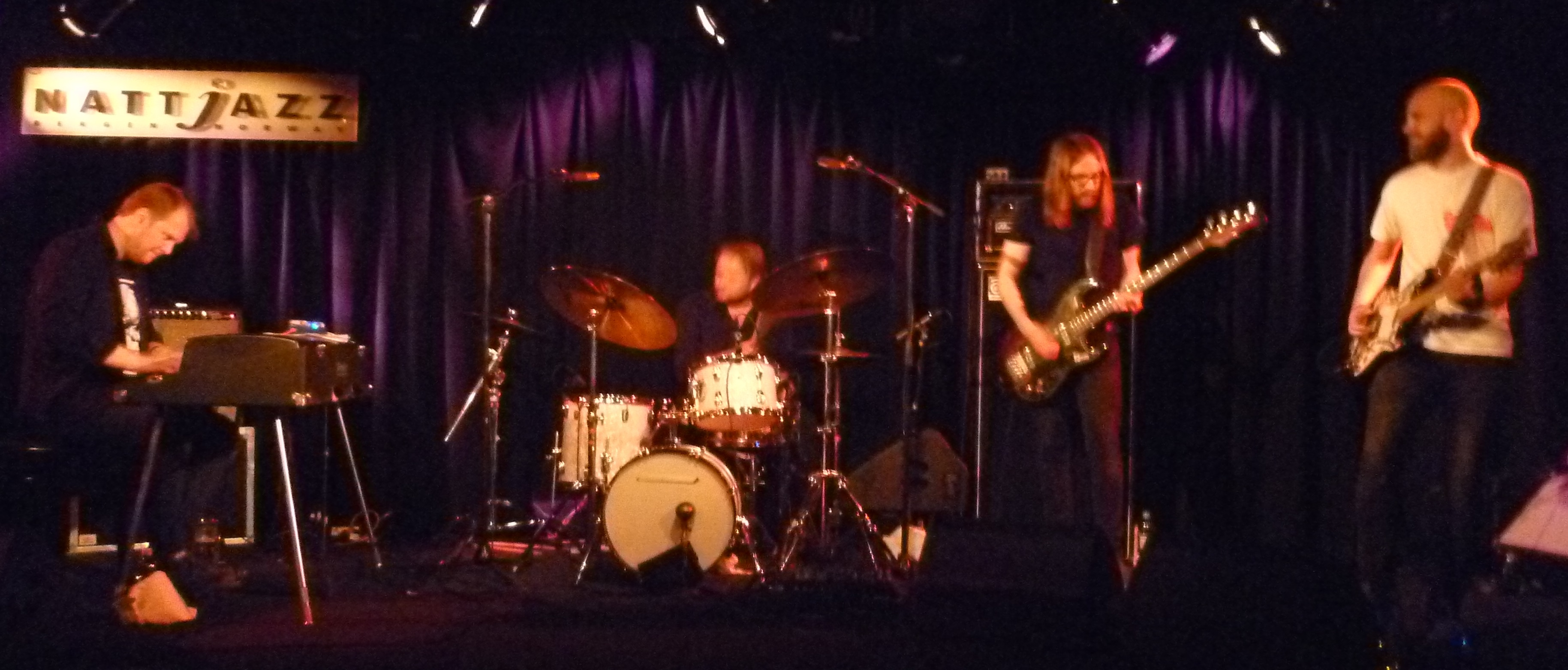 Red Kite at Sardinen, USF Verftet, Bergen, Norway, Nattjazz 2016.